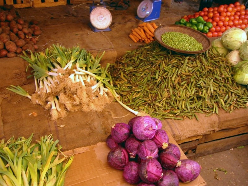 Spice stall in the Stone Town market.